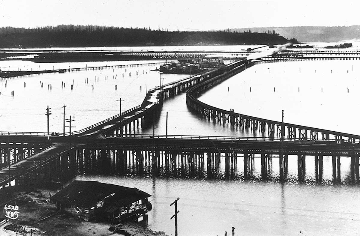 Seattle Box Company, built on tideflats of Elliott Bay in 1905, showing Spokane Street causeway and railroad trestle